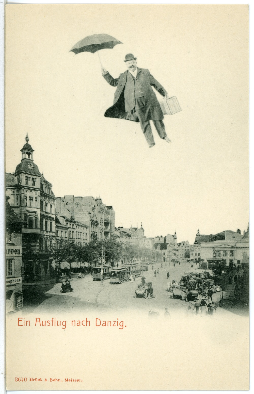 This postcard is from publisher Brück & Sohn in Meißen ( This postcard has a unique number 03640 and is available in a higher resolution at the publisher. This images was uploaded in a cooperation project between Wikipedians and the publisher.